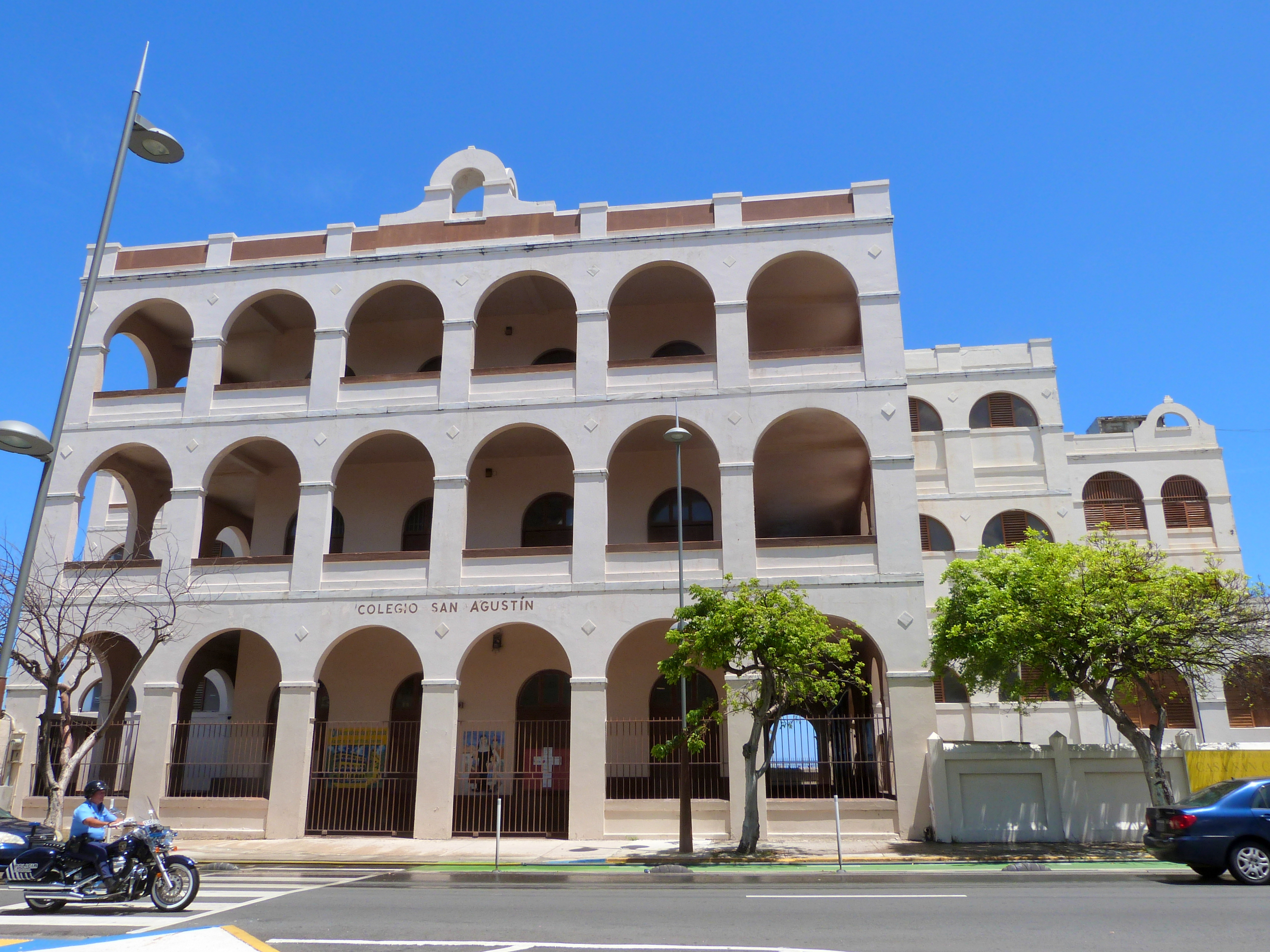 The convent and school of the Iglesia de San Agustín (built 1914–1915), located at Avenida Ponce de León #265 in Old San Juan, Puerto Rico, is listed on the U.S. National Register of Historic Places as part of the "Church, School, Convent and Parish House of San Agustín" listing.